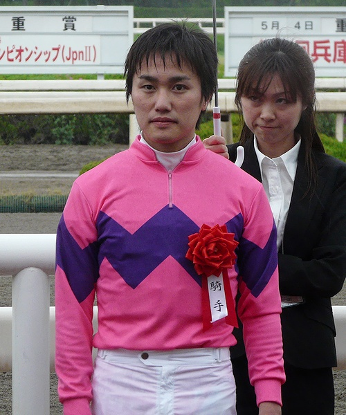 Shinji-Kawashima20120503